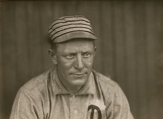 Photograph shows Topsy (Tully Frederick) Hartsel, third baseman/outfielder for the Philadelphia Athletics, head-and-shoulders portrait, facing front. Photo courtesy of the Library of Congress.